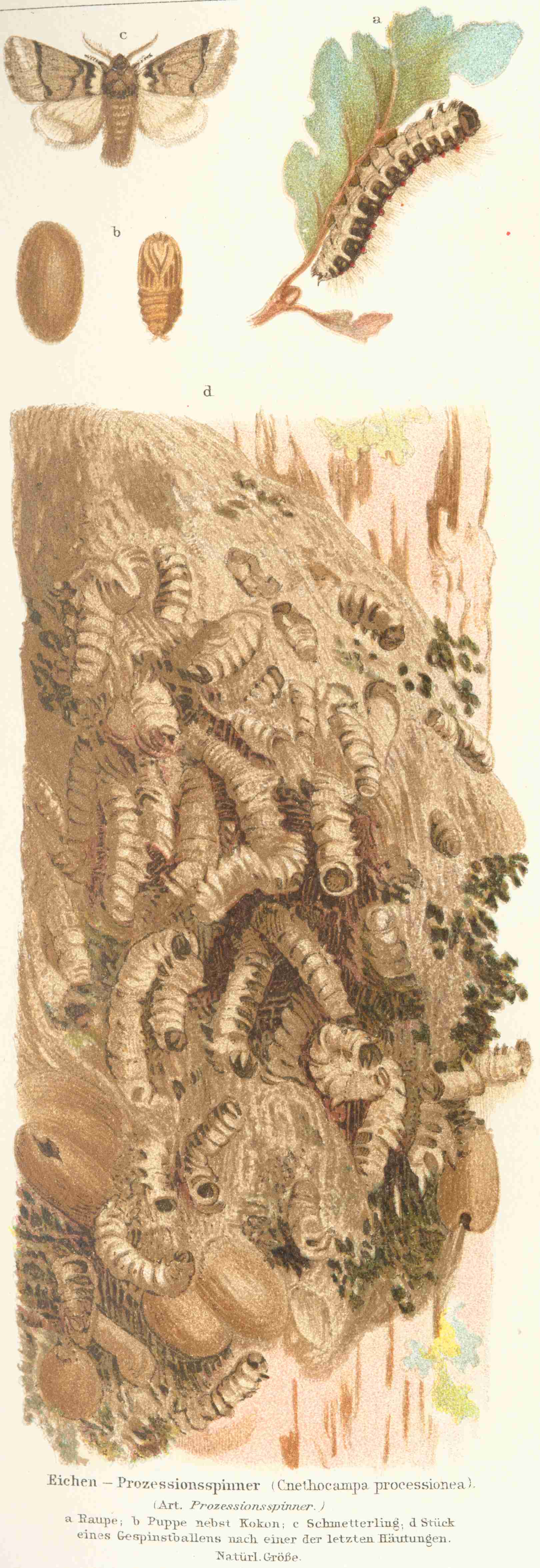 Oak Processionary